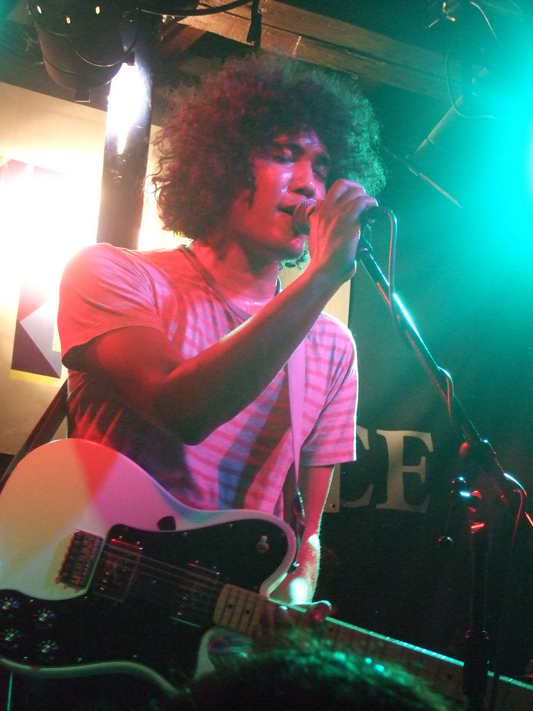 Black Kids performing at The Fleece, Bristol, Avon, UK